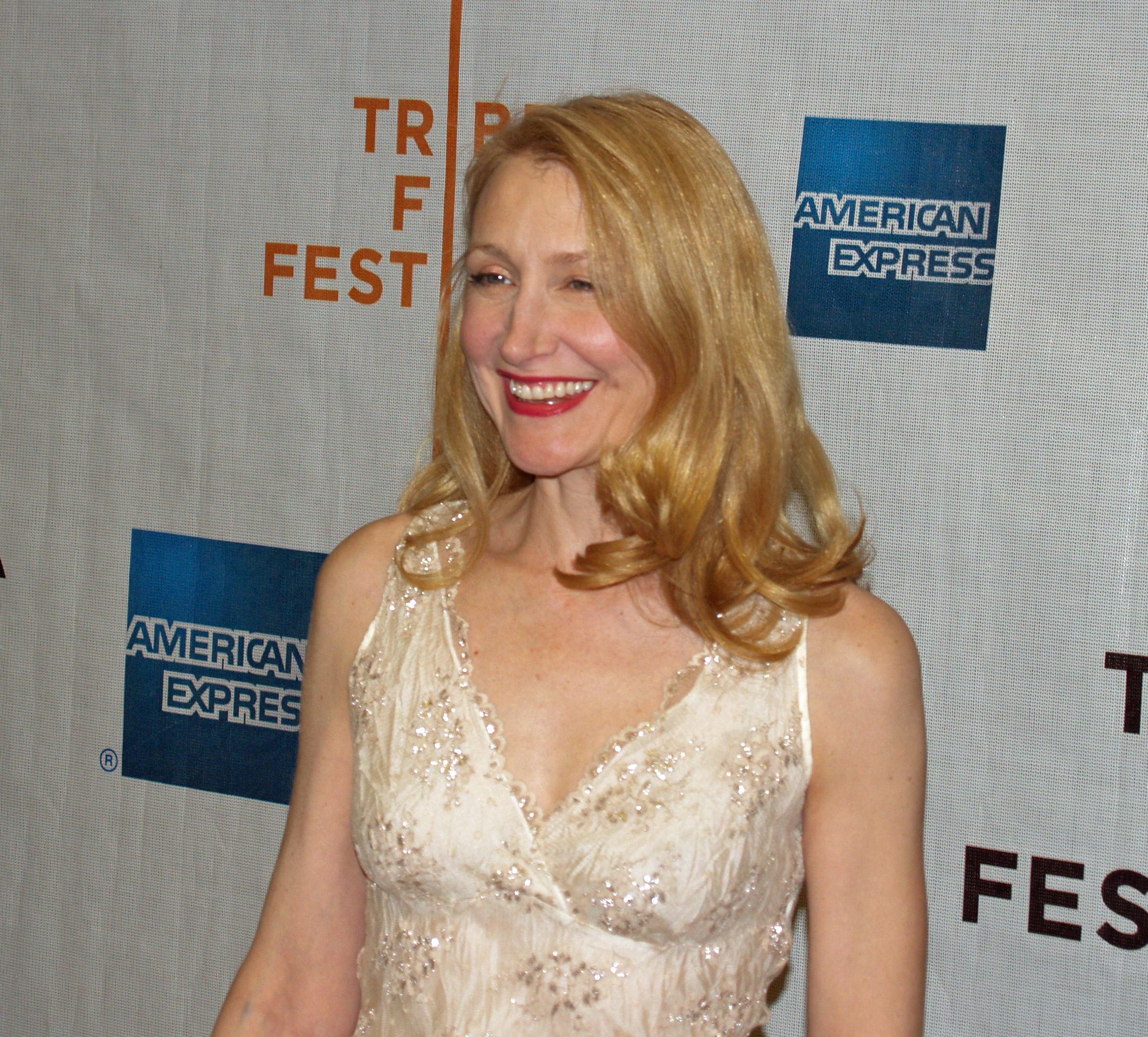 Patricia Clarkson at the Tribeca Film Festival, 2007